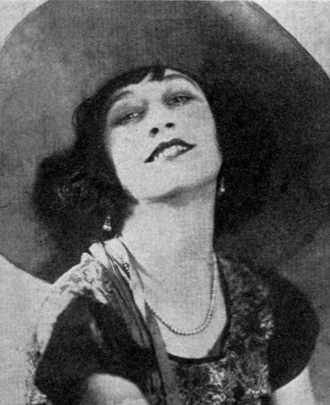 Lee Morse in a headshot ca. 1929